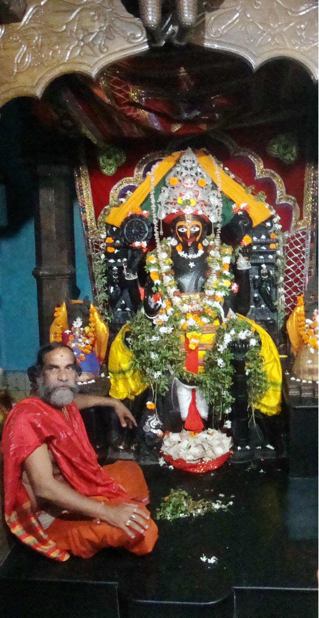 Alarnatha Temple is a temple dedicated to Vishnu and located in Brahmagiri, Orissa,nearPuri